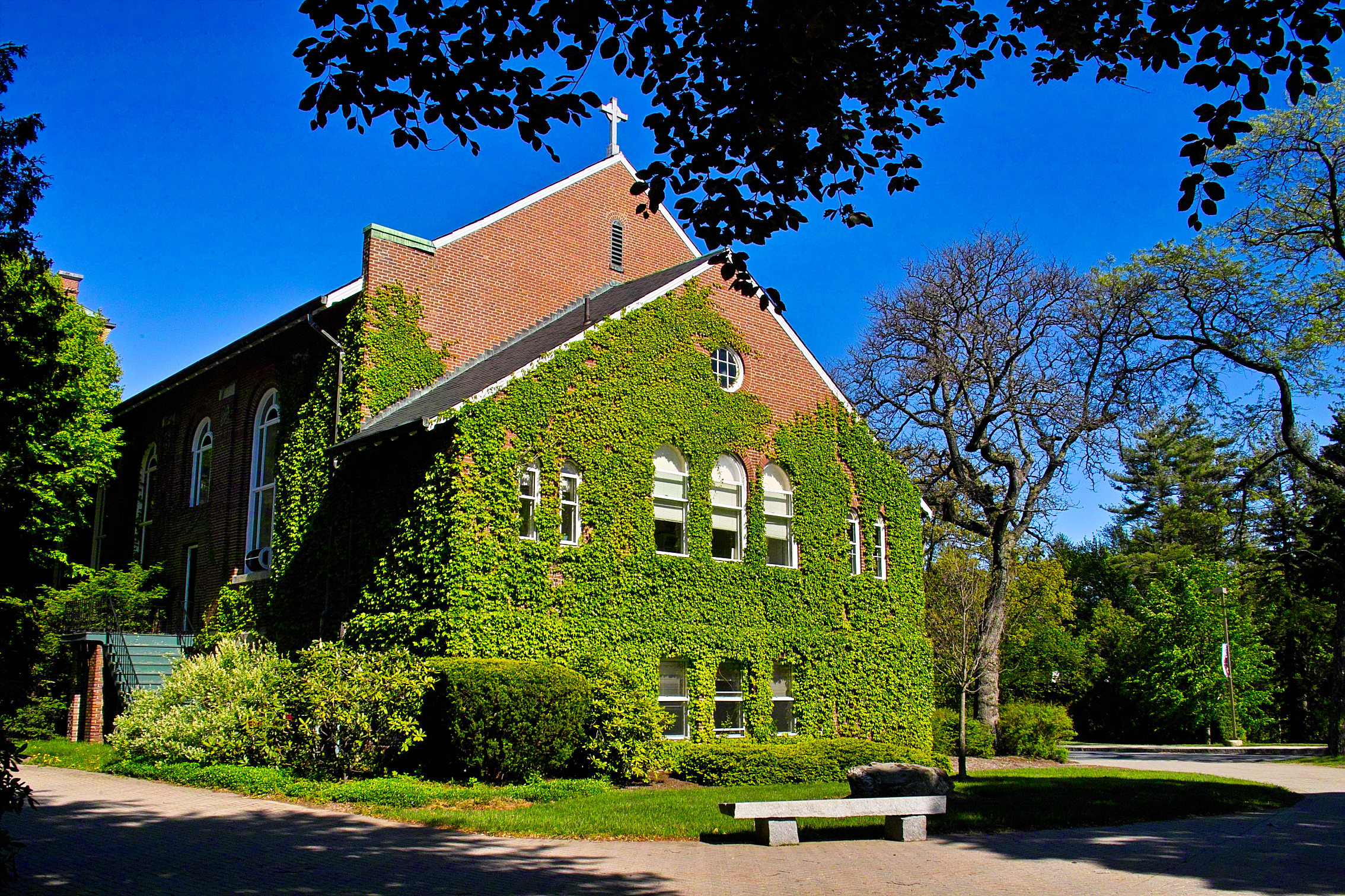 Chapel Arts Center - Alumni Hall